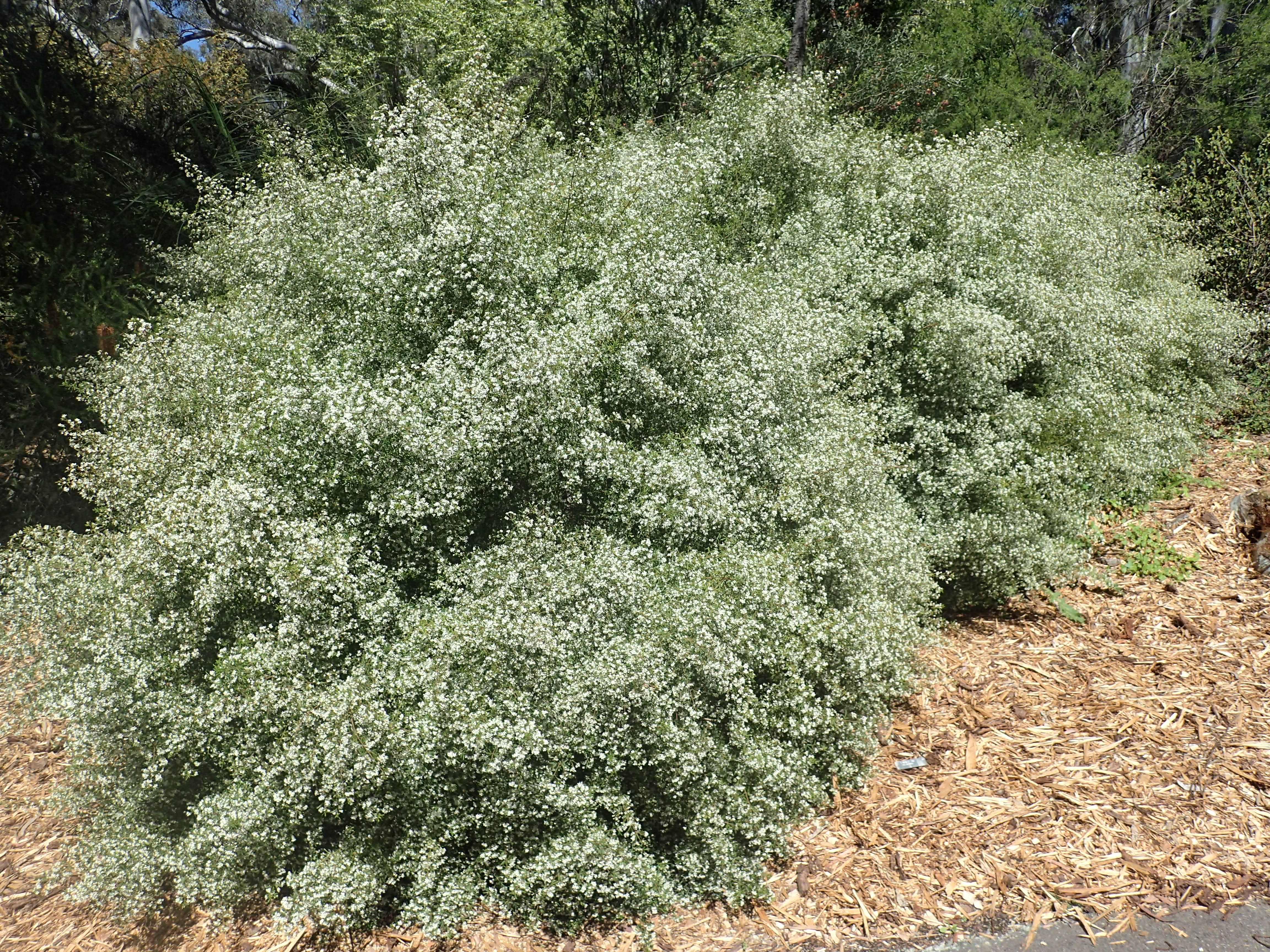 Zieria adenodonta in the ANBG